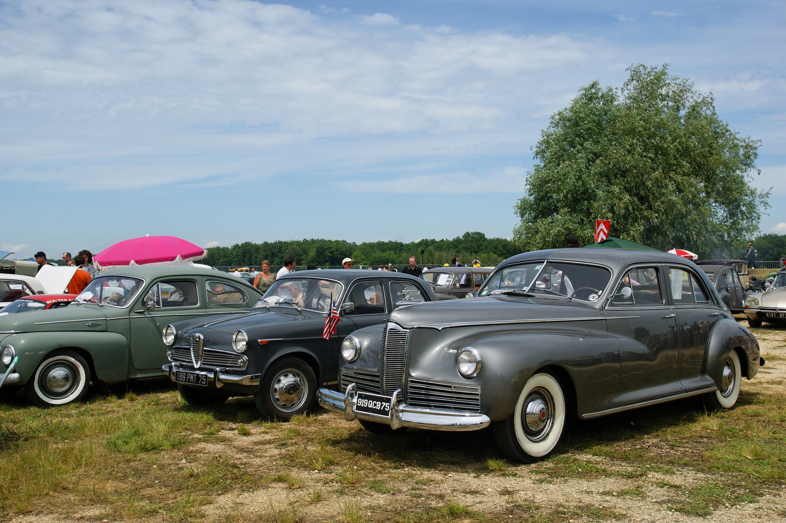 1941 Packard Clipper, third series Alfa Romeo Giulietta T.I. Berlina, and a Volvo PV544 in France